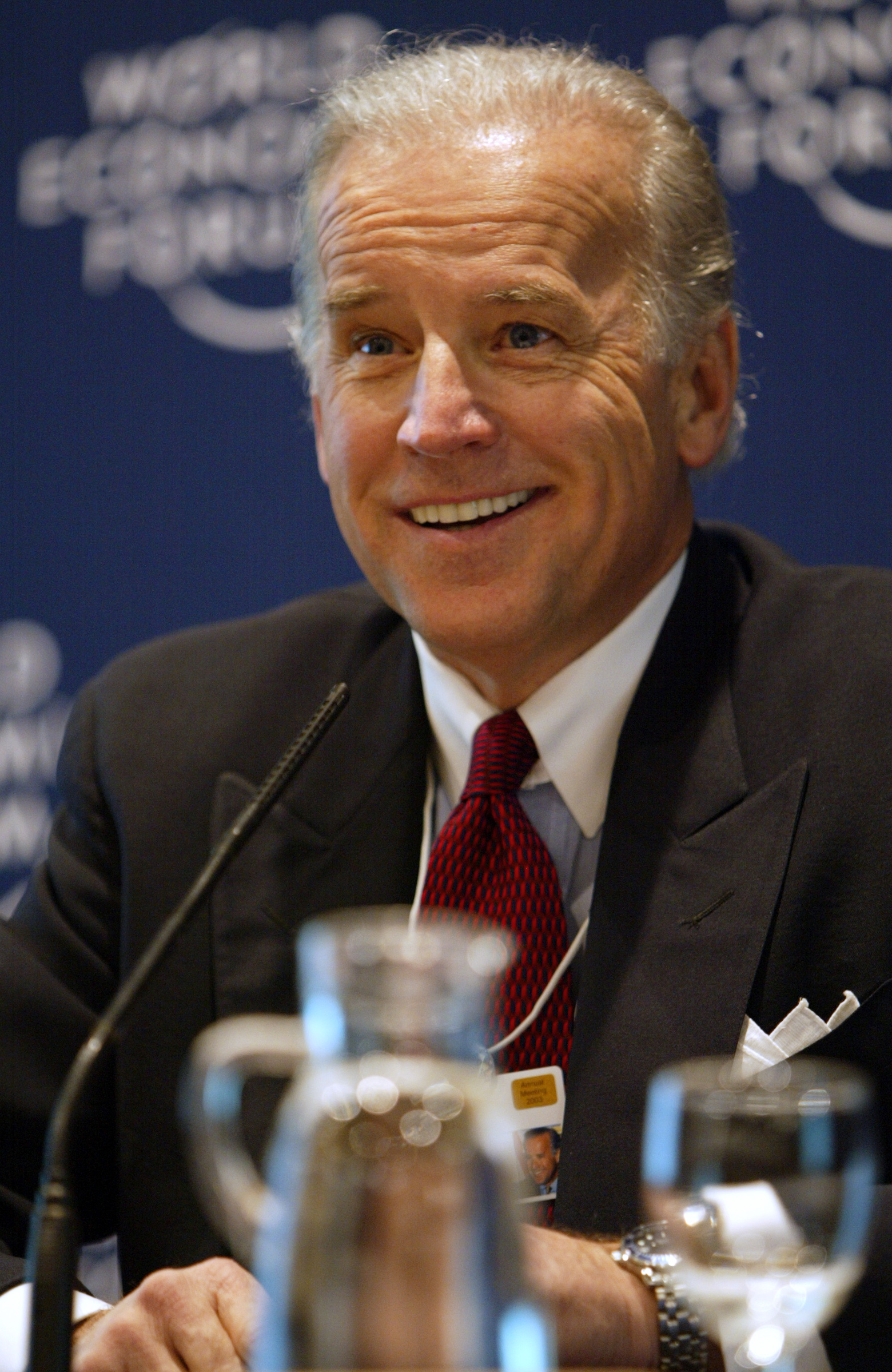 DAVOS,24JAN03 - Joseph R. Biden, Senator from Delaware (Democrat), USA speaks during the session US Foreign Policy: Going it Alone? at the 'Annual Meeting 2003' of the World Economic Forum in Davos/Switzerland, January 24, 2003. Copyright World Economic Forum / Photo by Daniel Ammann